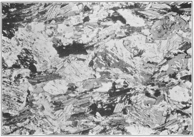 Figure caption: Harpers Schist. The albite is crowded with inclusions in a roughly parallel orientation that is inclined to the foliation of the rock.